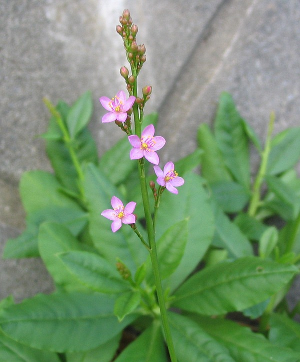 Photograph of Talinum fruticosum taken in Machida city, Tokyo, Japan.